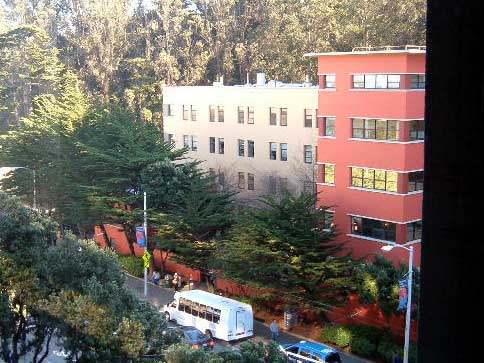 The Langley Porter Psychiatric Institute — at 401 Parnassus Avenue, on the Parnassus Campus of the University of California, San Francisco. Seen from the 5th floor of the UCSF Ambulatory Care Center across the street.